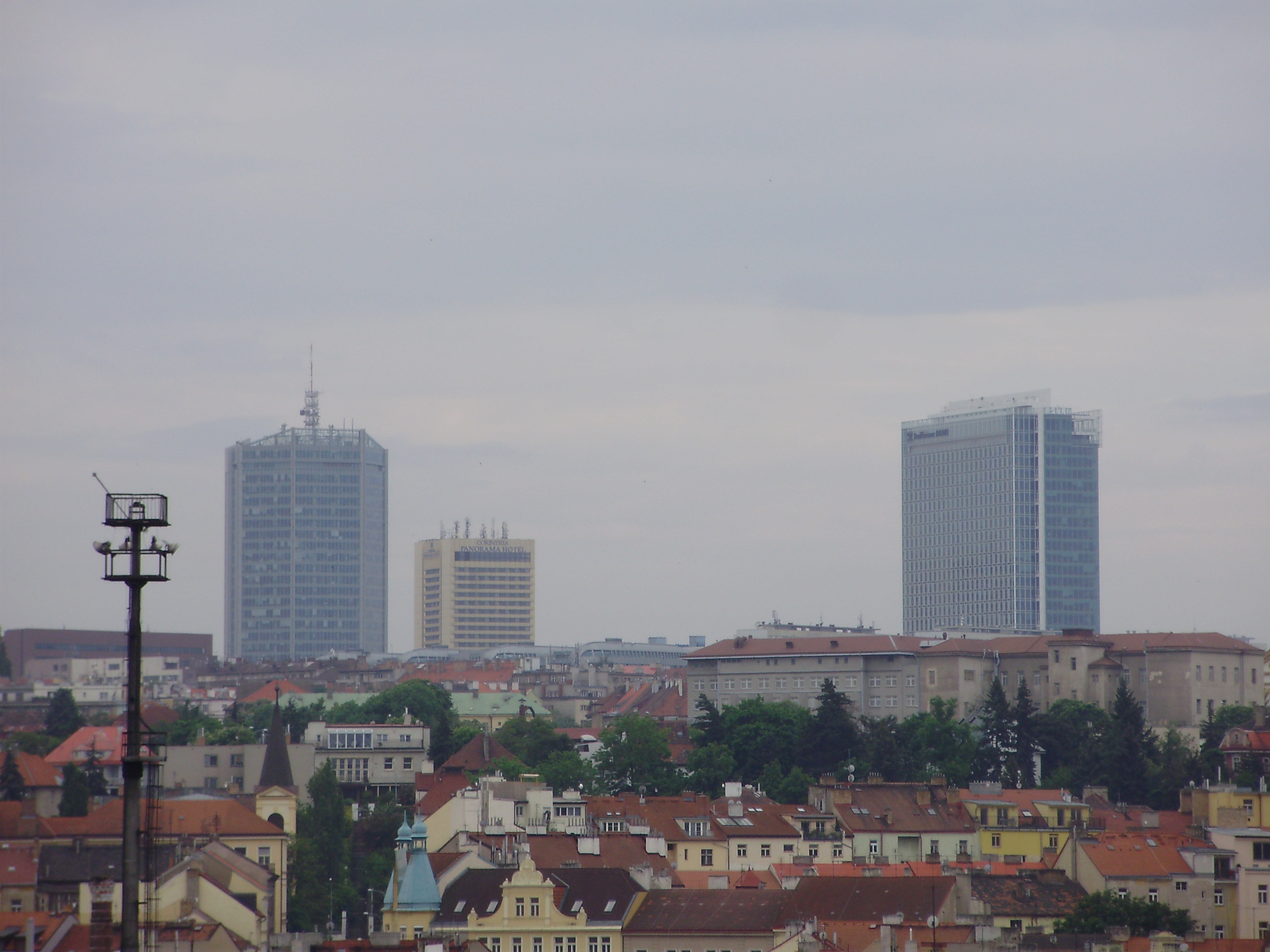 Prague Pankrác in May 2010